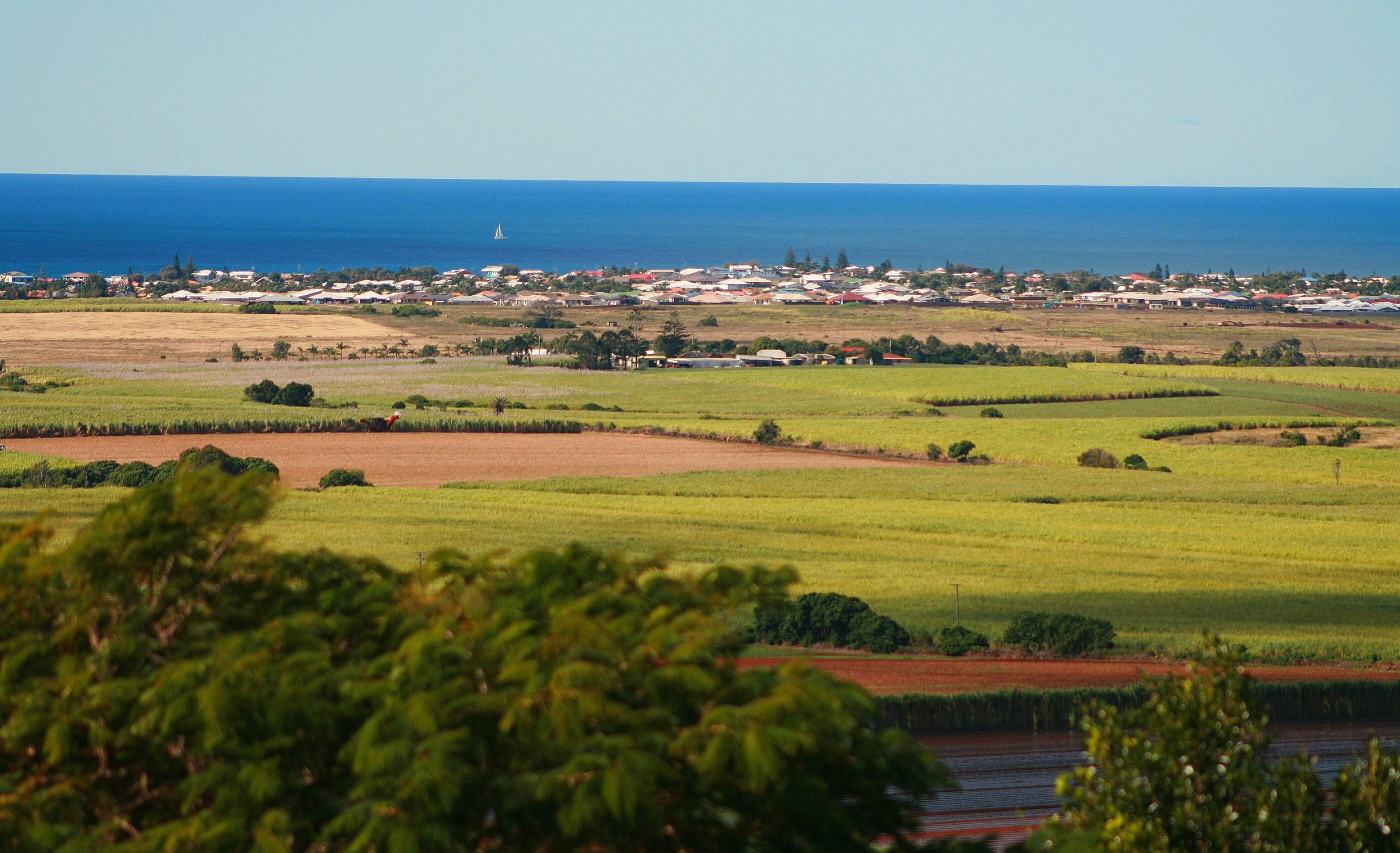 This was taken trom a place in Bundaberg called the Hummock. Here we see cane fields and small crop areas and housing nearer the sea.